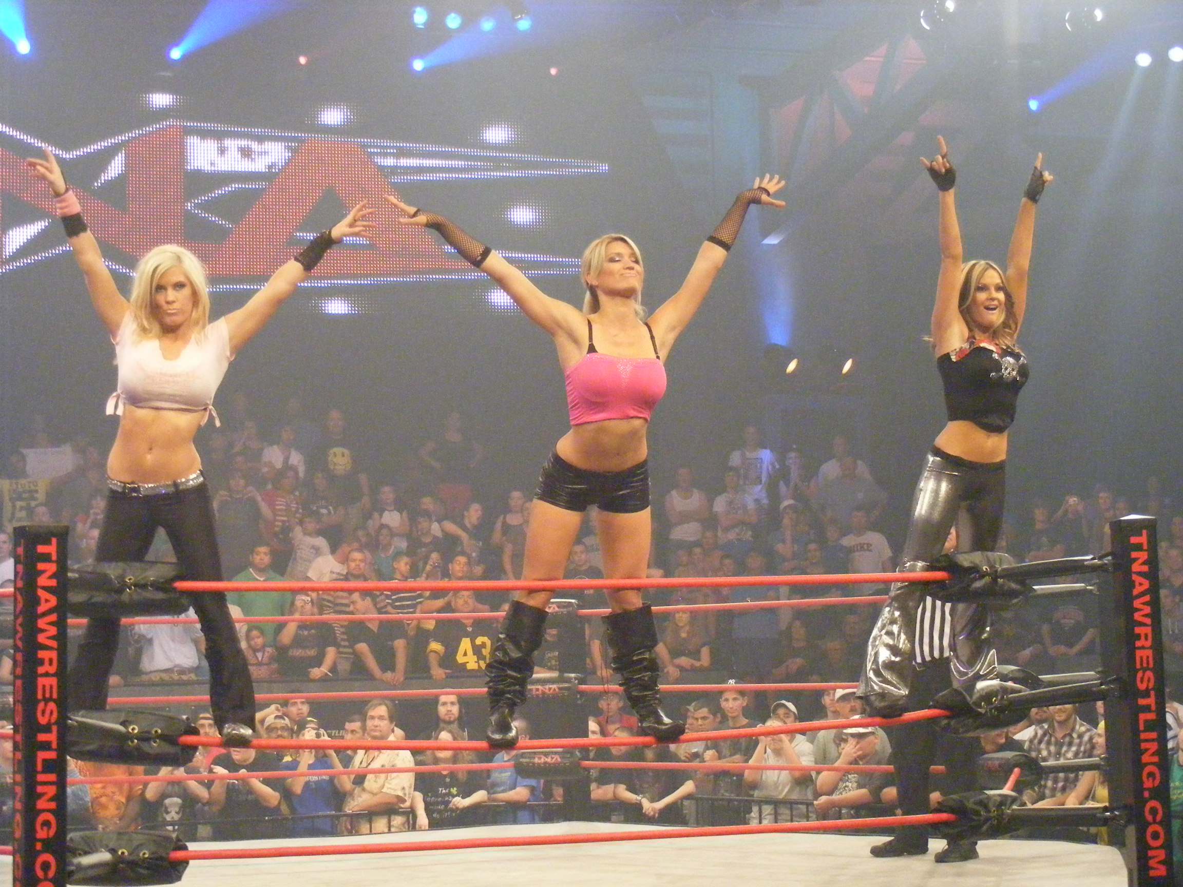 The Beautiful People (Madison Rayne, left; Lacey Von Erich, center; and Velvet Sky, right) pose for the cameras before a match on TNA Impact.